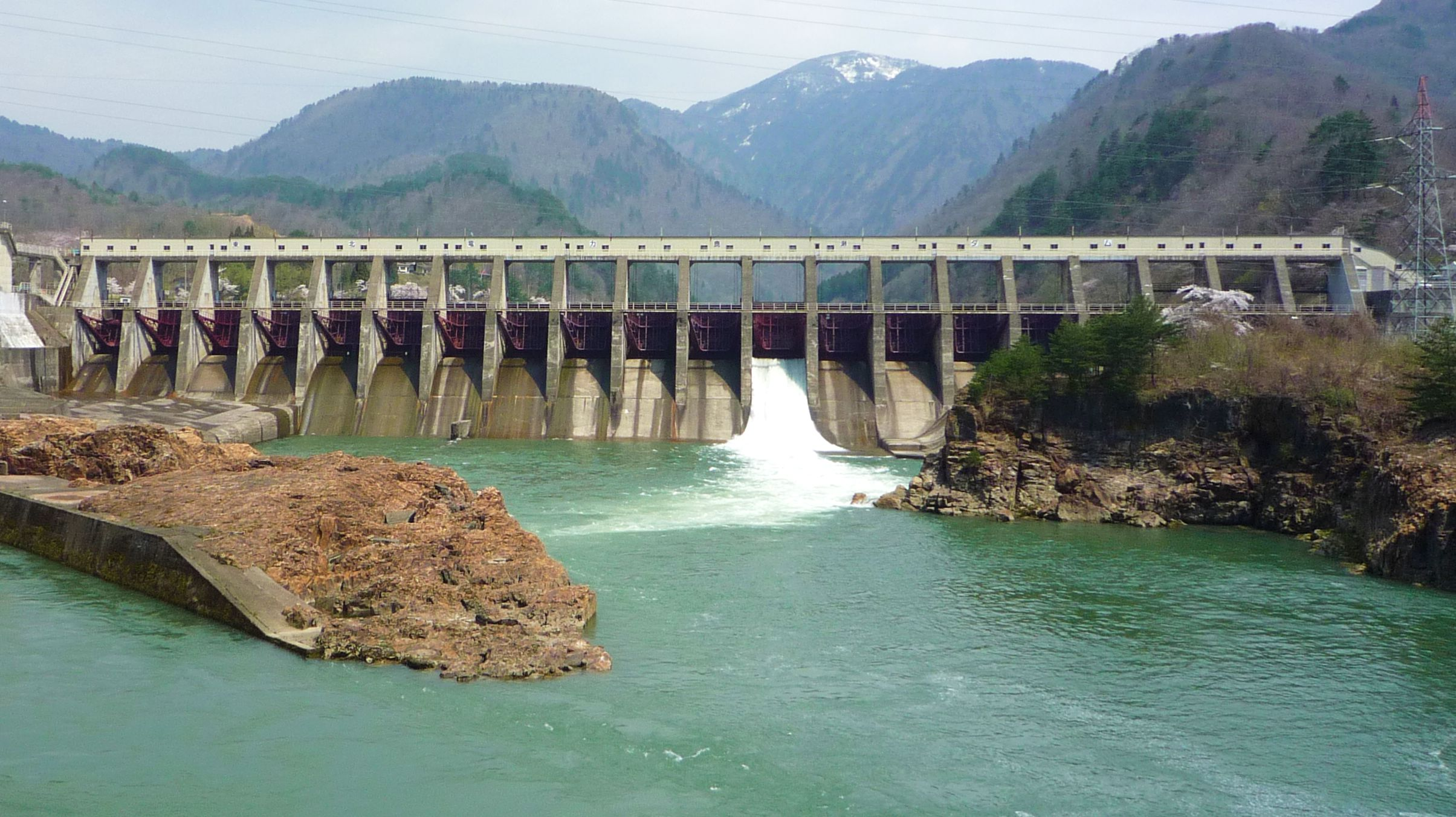 Kanose Dam.